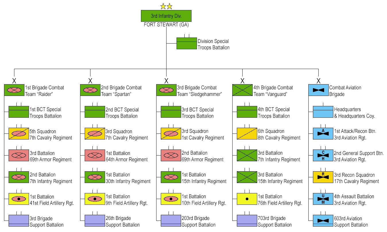 US Army 3rd Infantry Division Structure